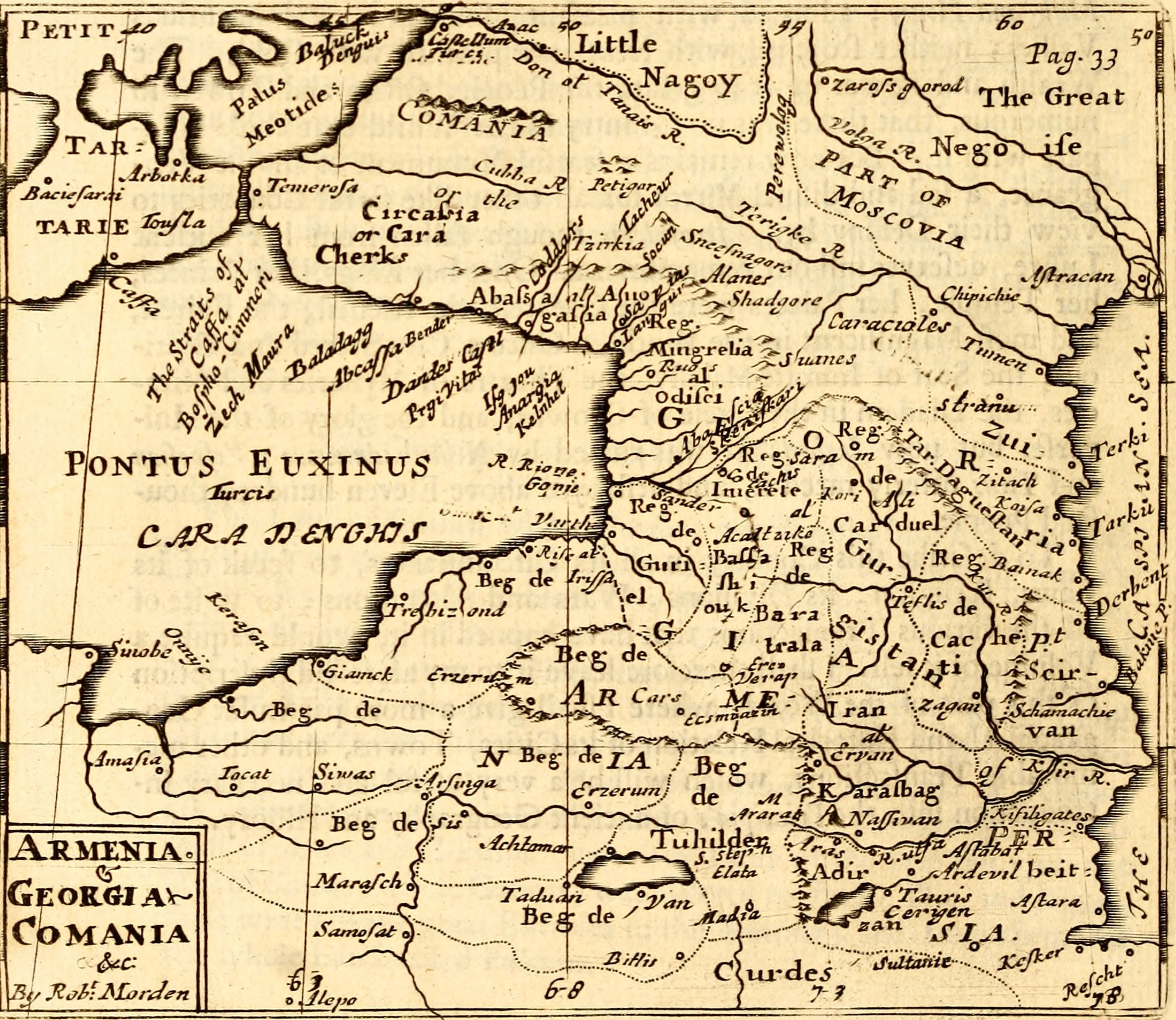 The map "Georgia & Armenia & Comania" from page 375 of "Geography rectified, or, A description of the world in all its kingdoms, provinces, countries, islands, cities, towns, seas, rivers, bayes, capes, ports : their ancient and present names, inhabitants, situations, histories, customs, governments, &c. : as also their commodities, coins, weights, and measures, compared with those at London : illustrated with seventy six maps : the whole work performed according to the more accurate observations and discoveries of modern authors" by Robert Morden (London, Printed for R. Morden and T. Cockerill).